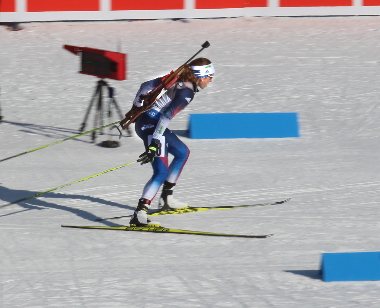 Susan Dunklee at Biathlon World Cup 2015 in Nové Město, Czech Republic – sprint women